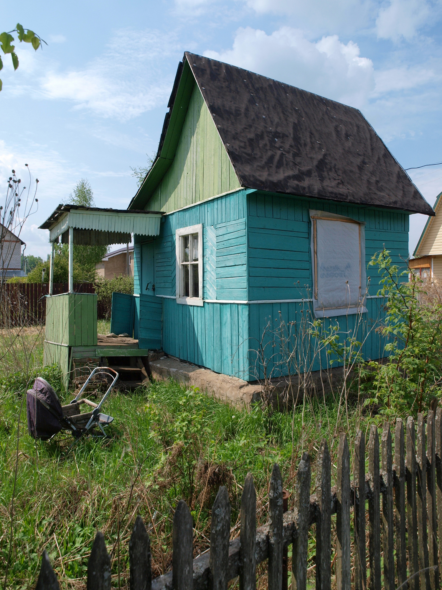 A tiny tiny dacha hut in a dacha township between Roshcha and Rusinovo (Kaluga Oblast, Russia).